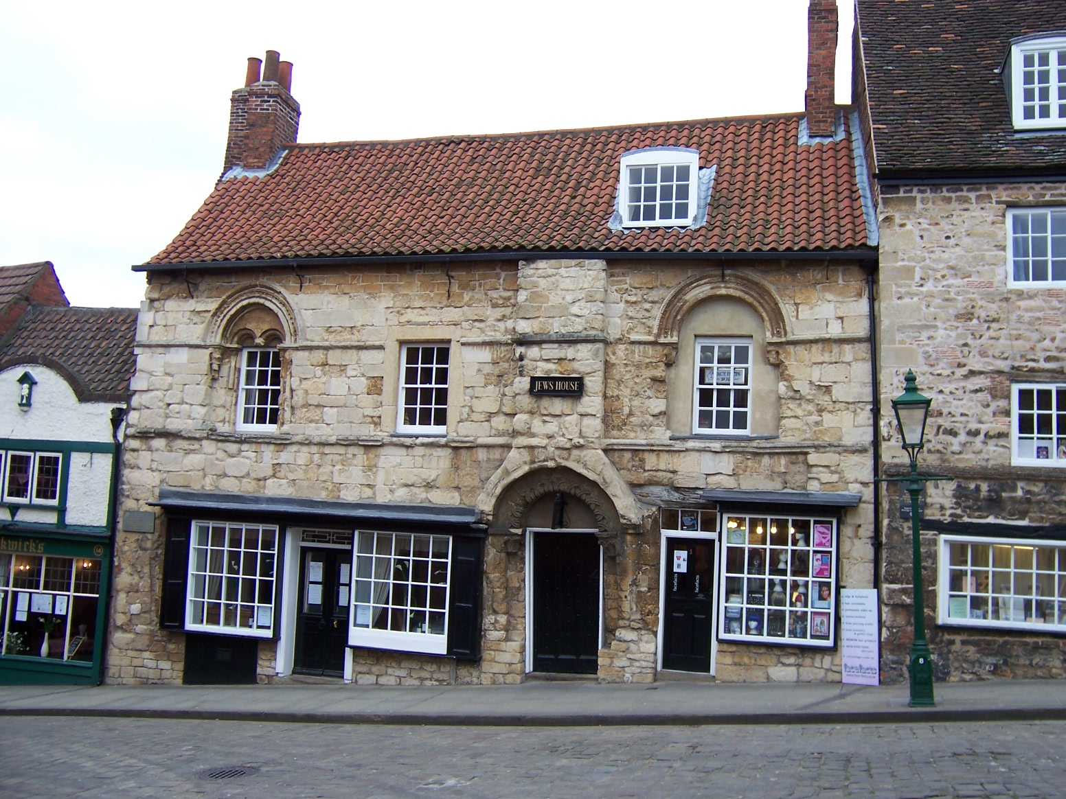 Jew's House in High Street, Lincoln (England) own work